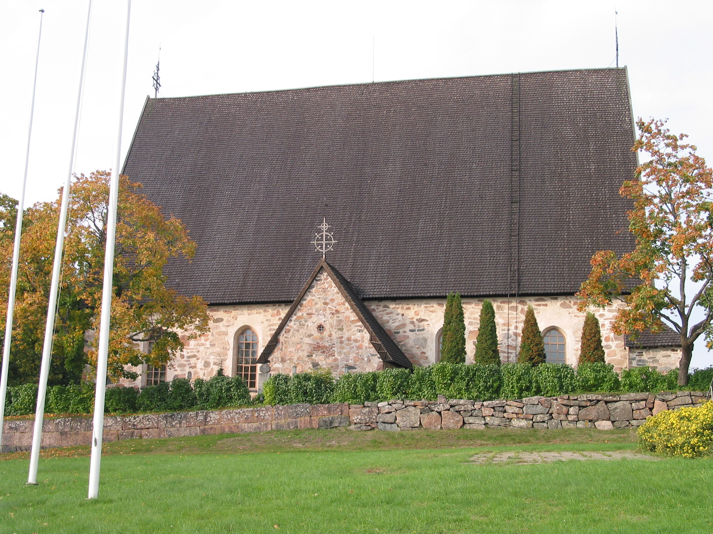 Church in Perniö, 15th century